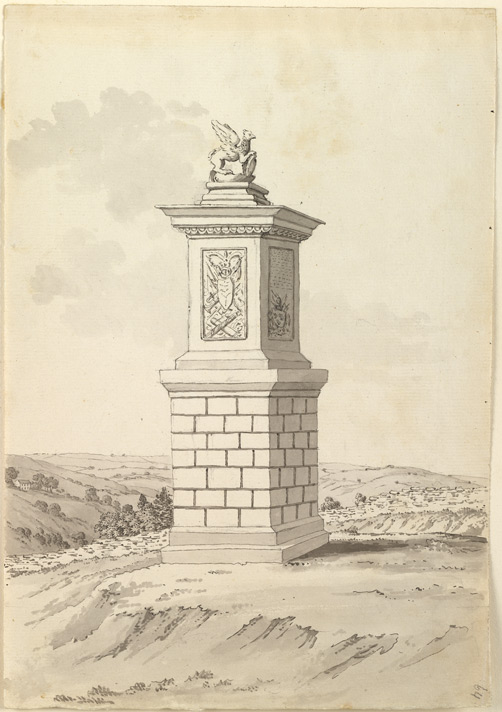 A ink wash painting by Samuel Hieronymus Grimm of Sir Bevil Grenville's Monument on Lansdown Hill. The monument was erected in 1720, north-west of the city of Bath, in Somerset, England. It commemorates the heroism of the Civil War Royalist commander Sir Bevil Grenville (1596-1643), who on 5 July 1643 fell mortally wounded at the Battle of Lansdowne, leading his regiment of Cornish pikemen. It was erected by Grenville's grandson.